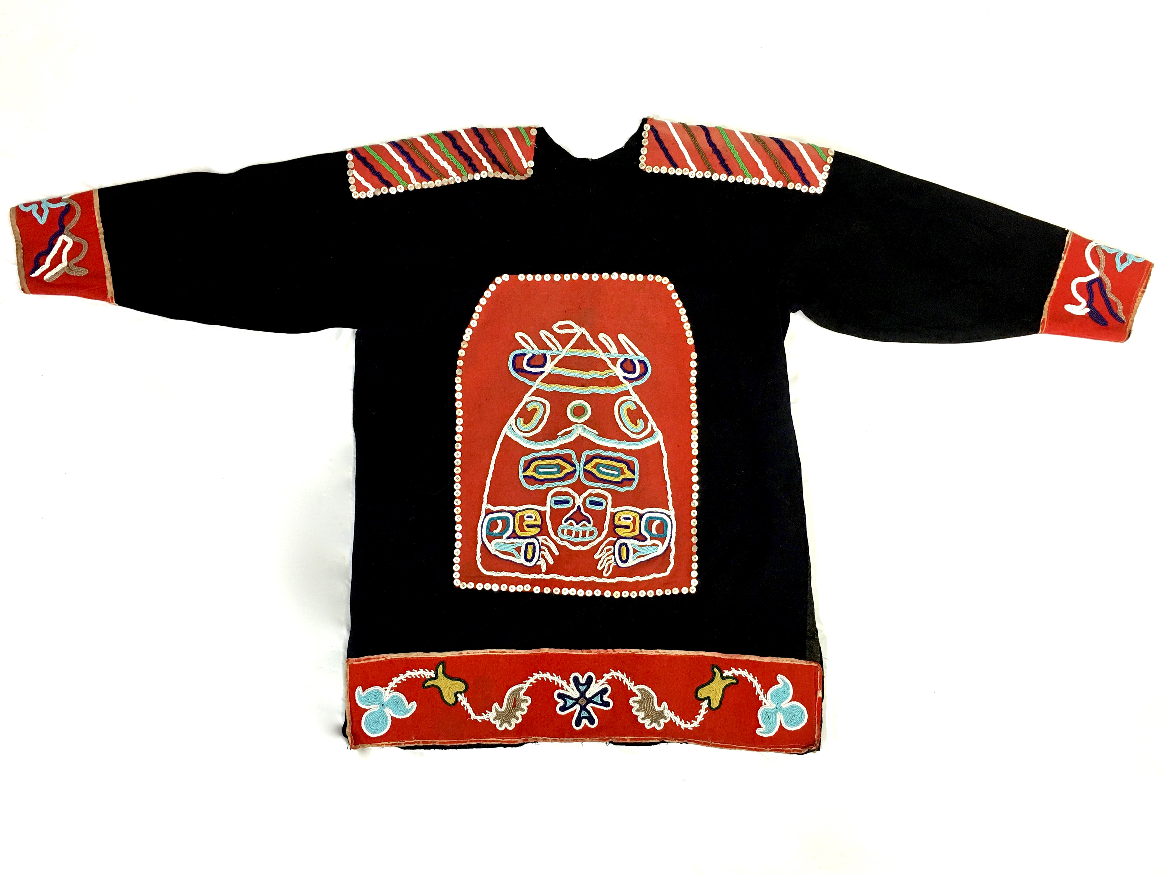 Tlingit Ceremonial Tunic given to Maynard Miller in 1946 after the HMC expedition from Yakutat to climb Mt. St Elias.